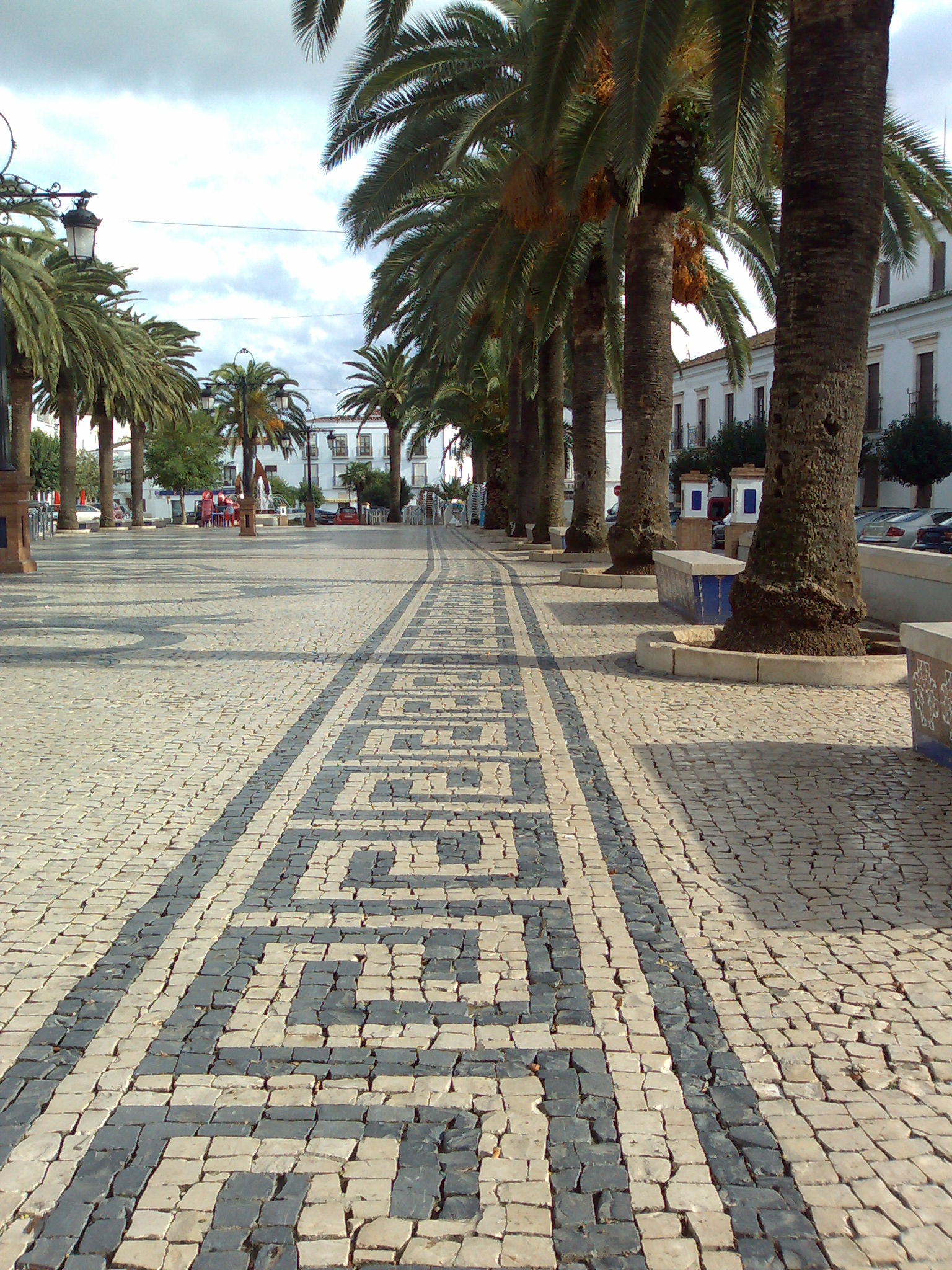 Olivença